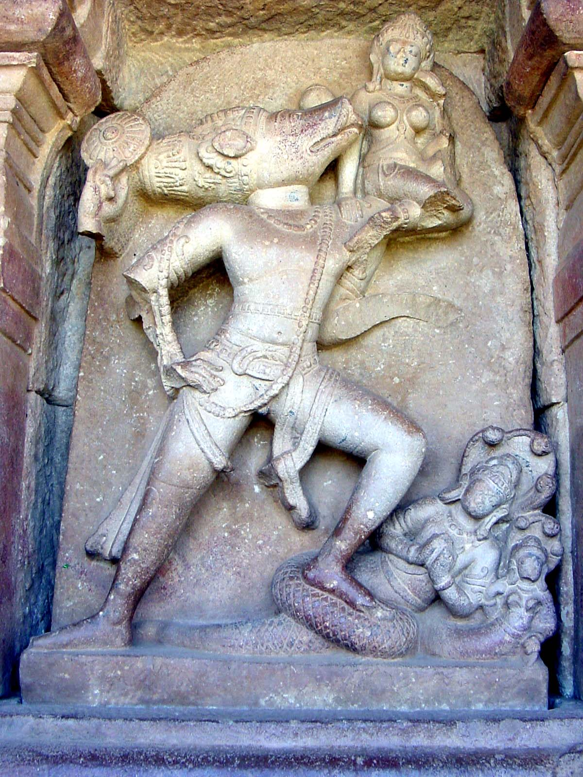 Varaha. Durga Temple, Aihole Vishnu's boar avatar lifts Bhu Devi on the crook of his arm, while suppressing the nagas (snakes) with his foot.